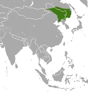 Manchurian Hare (Lepus mandschuricus) range